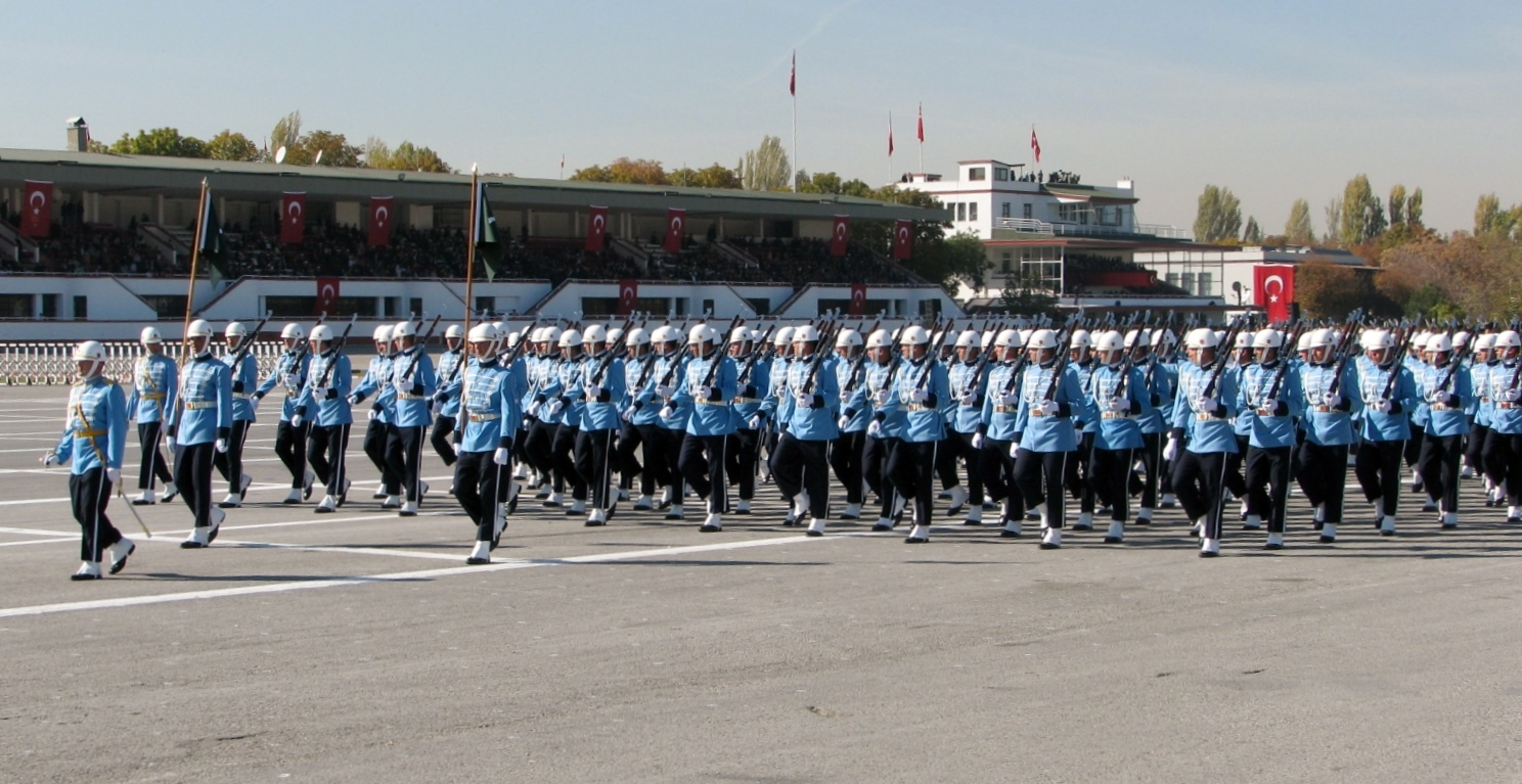 Turkish Presidential Guard Regimen